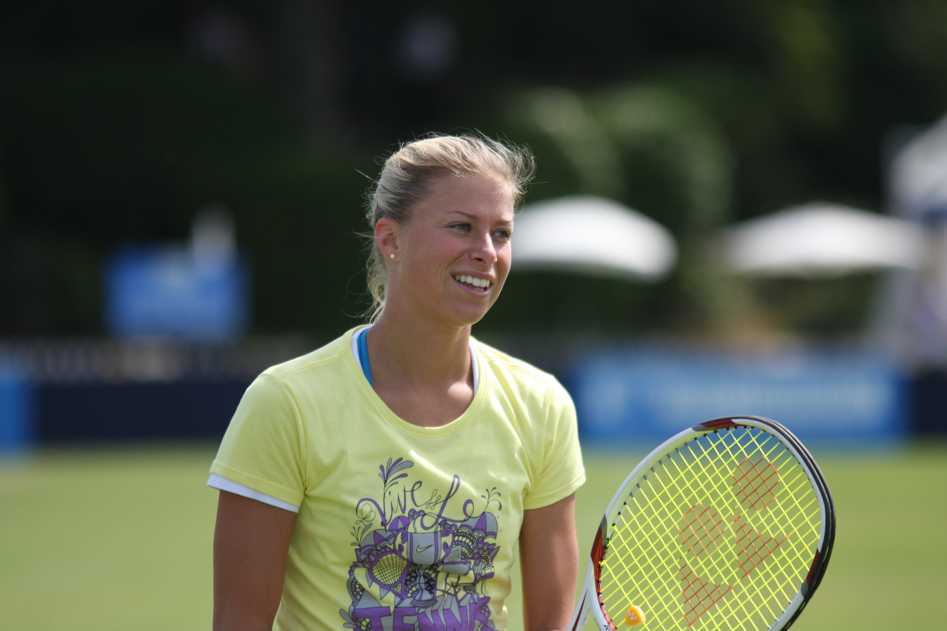 Andrea Hlavackova at the 2011 Aegon International in Eastbourne.